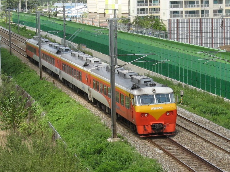 taken at 24 August 2008, in Gyeongsan city